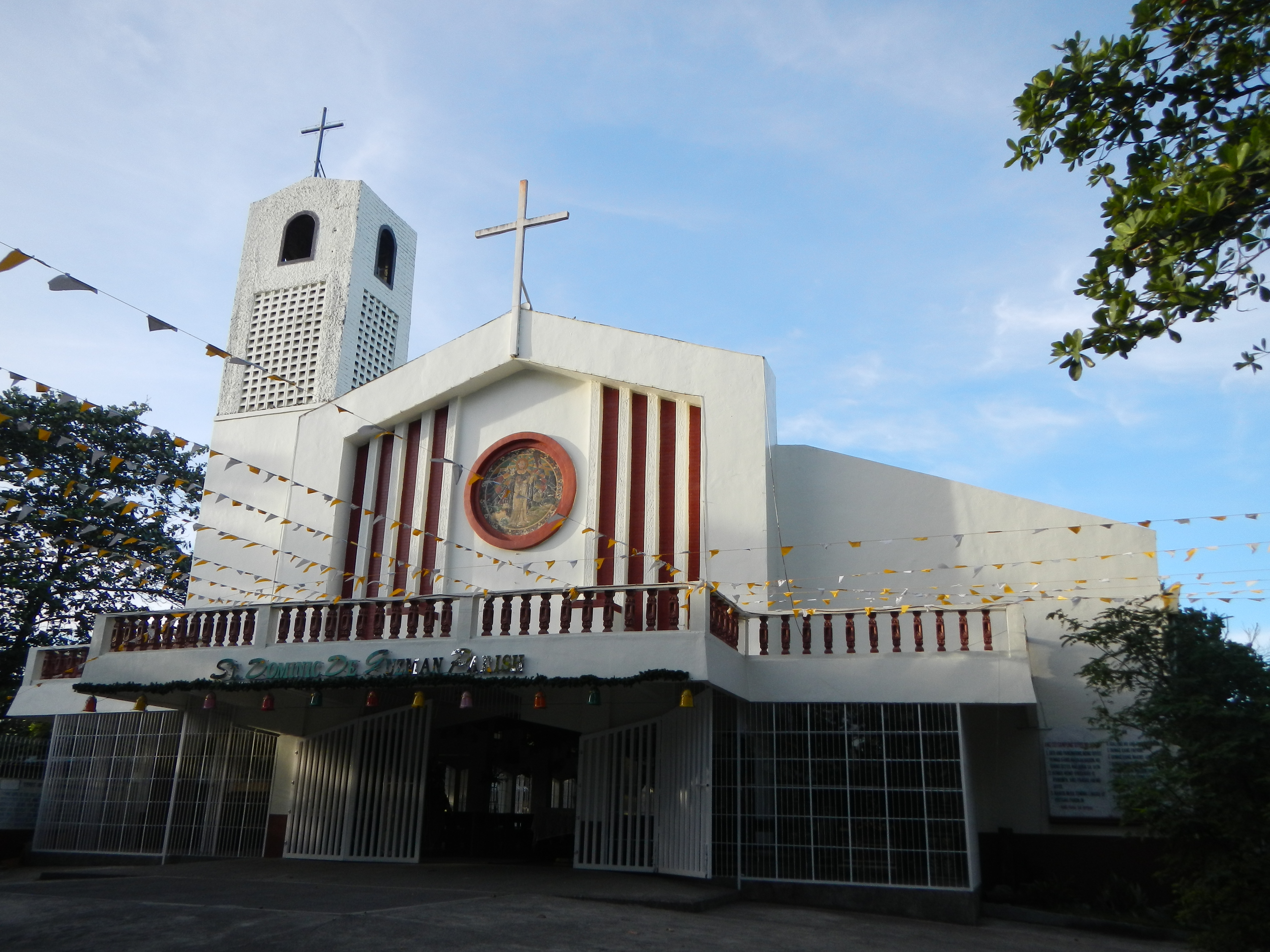 1896 St. Dominic Parish Church, Real St., Poblacion, Sto. Domingo, 3133 Nueva Ecija -[1] Roman Catholic Diocese of San Jose in the Philippines[2]Most. Rev. Roberto Calara Mallari, D.D. (since 15 May 2012), Parish Priest, 19. Fr. Edwin I. Bravo, Vicariate of St. Dominic[3] (Diocesis Sancti Josephi in Insulis Philippinis) Suffragan of Lingayen-Dagupan (Created: February 16, 1984. Erected: July 14, 1984. Comprises the City of San Jose and the Science City of Muñoz and 12 other municipalities in Northern Nueva Ecija. Titular: St. Joseph the Worker, May 1)[4] Vicariate of St. Dominic[5] Vicar Forane:Fr. Bonifacio P. Flores Saint Dominic Parish Titular: Saint Dominic de Guzman Year of Establishment: 1929